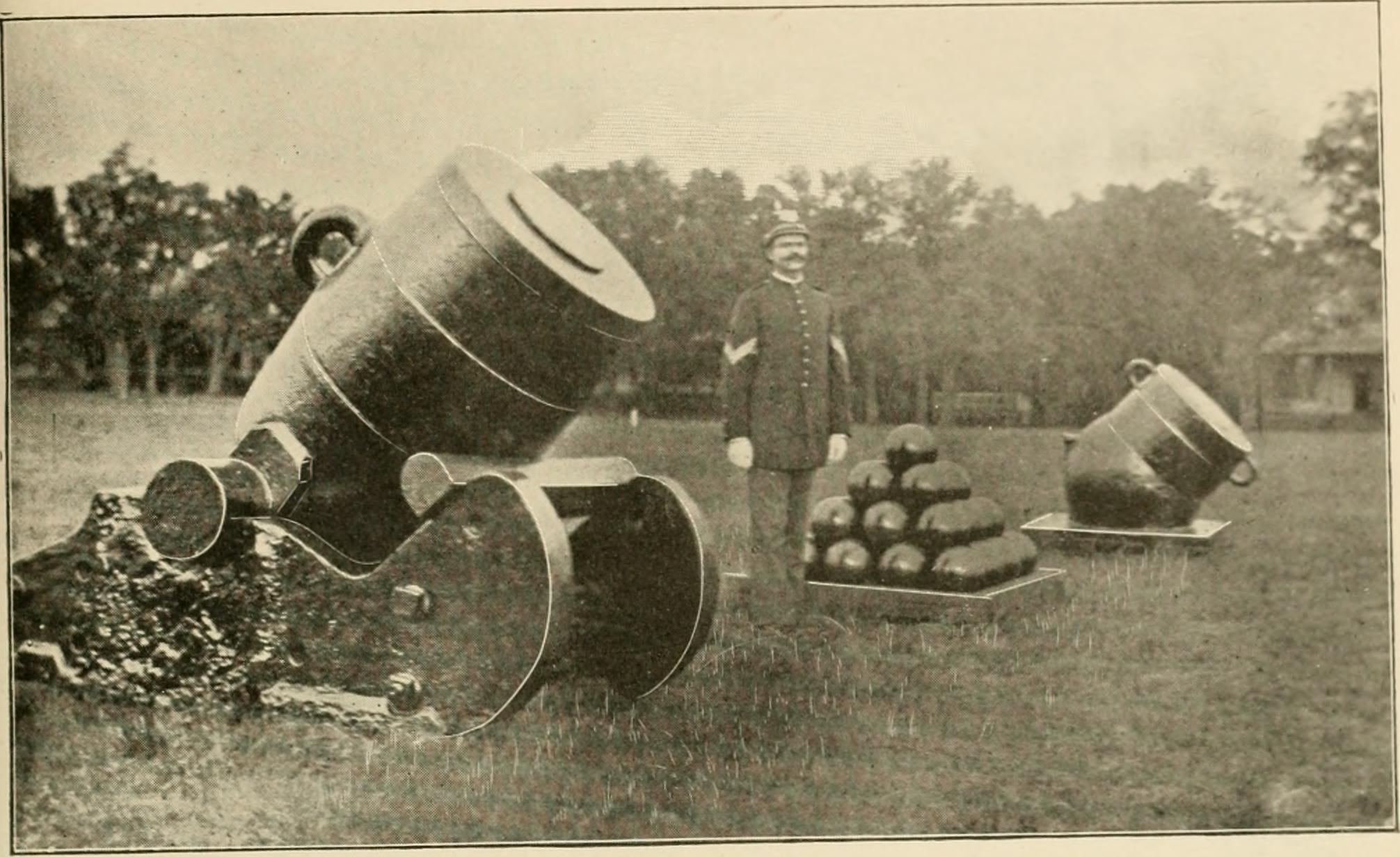 Title: Pensacola harbor; beautiful views and pertinent facts regarding the "deep water city" of the Gulf of Mexico; Pensacola navy yards, Pensacola shipping and Pensacola fortifications Year: 1904 (1900s) Authors: Bliss, Charles Henry, 1860-1907, ed Subjects: Publisher: Pensacola, C. H. Bliss Text Appearing Before Image: shells, 1 introduce as a matter of interest, a reproduction of a picture of the first mortar batteryuh.ch was invented by Leonardo da Vinci about four hundred years ago!The picture is taken from his manuscript, the Codex Atlanticus, which■ s now at Milan. Da Vinci was one of the greatest and most versatilemen of the world, having in a marked degree every human attainmentand following every pursuit with partial success, except the commercial-J He invented and devised many implements of warfare, among which mavbe mentioned the conical ritle ball, the explosive bomb, the built-up gun, the wire gunand the mortar, or throwing kettle, for hurling explosives and burning shot. Thebreech-load, ng cannon was known to him and he made improvements upon it Theshort stub by mortars and the round hollow bombs have been discarded in recentyears, but the conical projectile, the hollow projectile filled with explosives and thebuilt-up gun are still prominent features of warfare. THE BLISS MAGAZINE 63 Text Appearing After Image: TWO 15-lNCH MORTARS OF HISTORICAL INTEREST, AT FORT BARRANCAS S HISTORICAL MORTARS. T